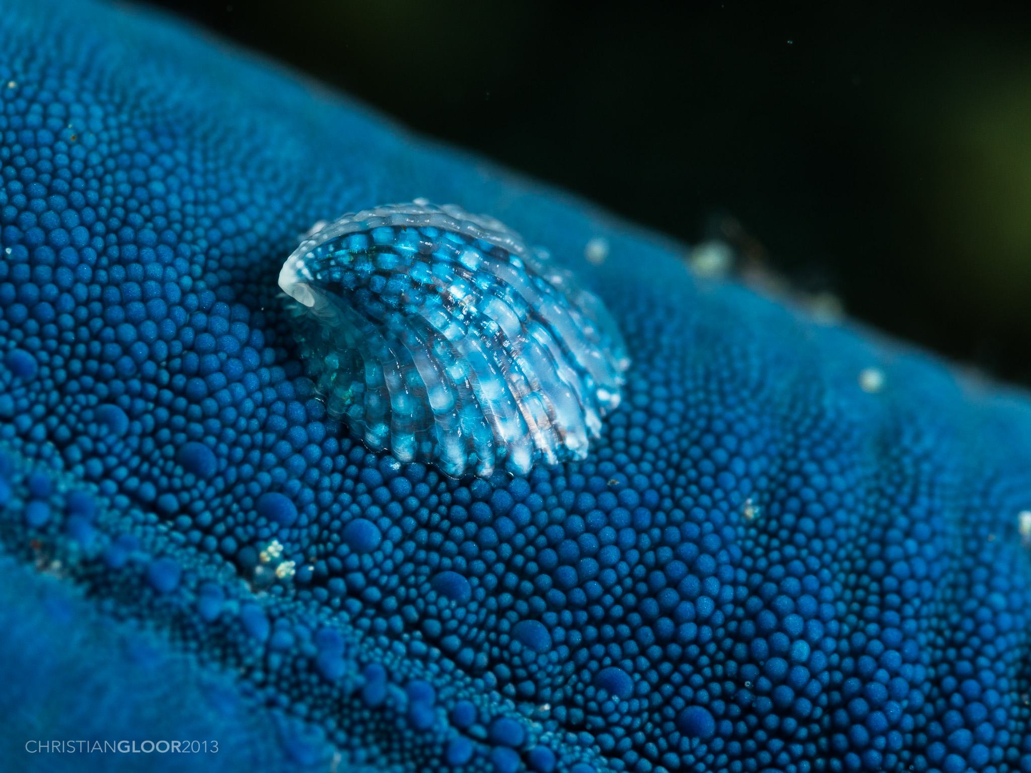 Parasitic Cap Shell / Thyca crystallina